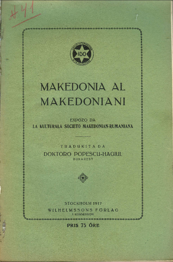 Makedonia al Makedoniani